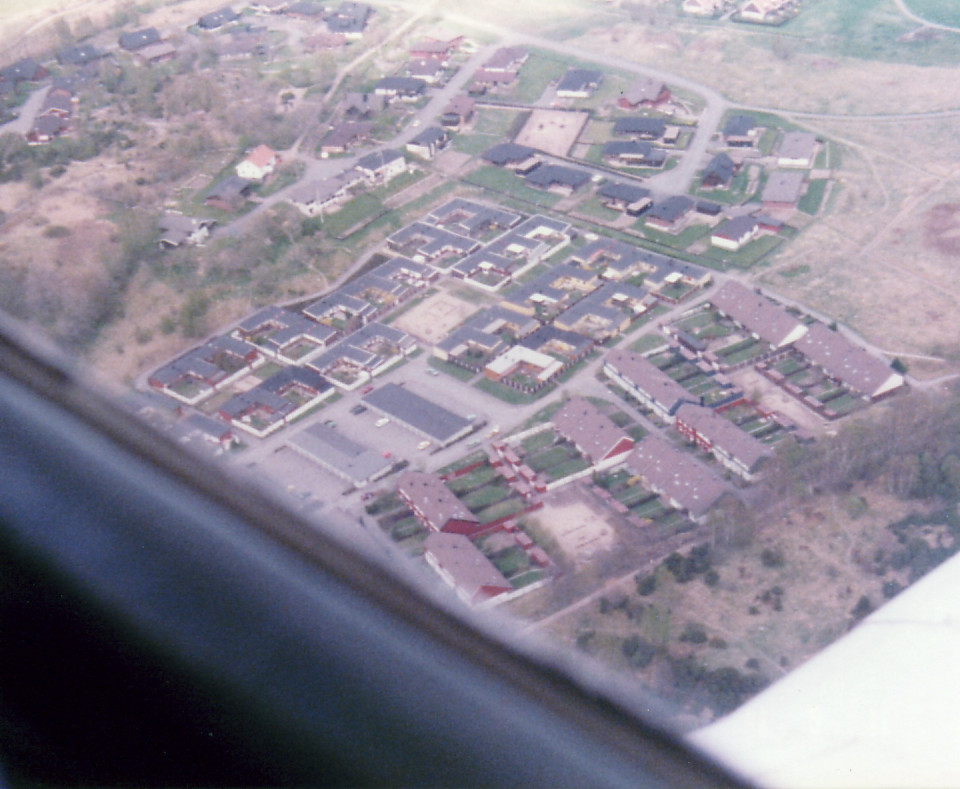 airphoto over Tångedal